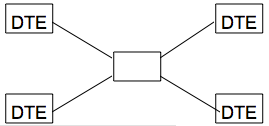 A simple illustration for a startopology in a computer network